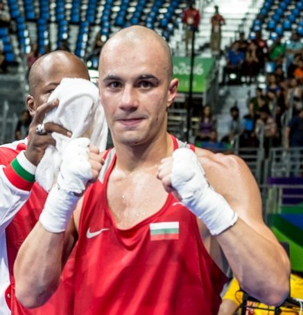 Day 3 at the 2016 Summer Olympics. Boxing 69 kg. Round of 32, Simeon Chamov (Bulgaria) vs Onur Şipal (Turkey)